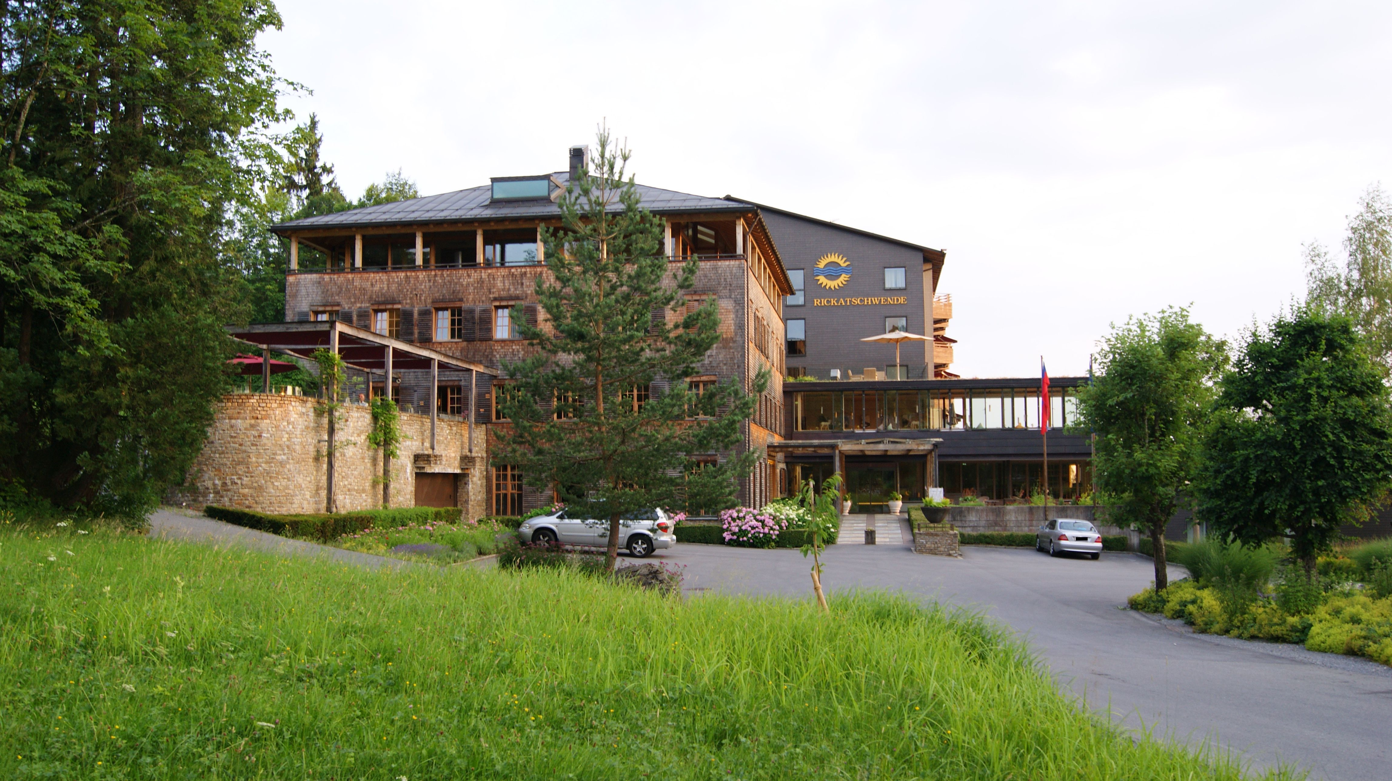 Rickatschwende in Dornbirn, Vorarlberg, Austria. Hotel Rickatschwende.